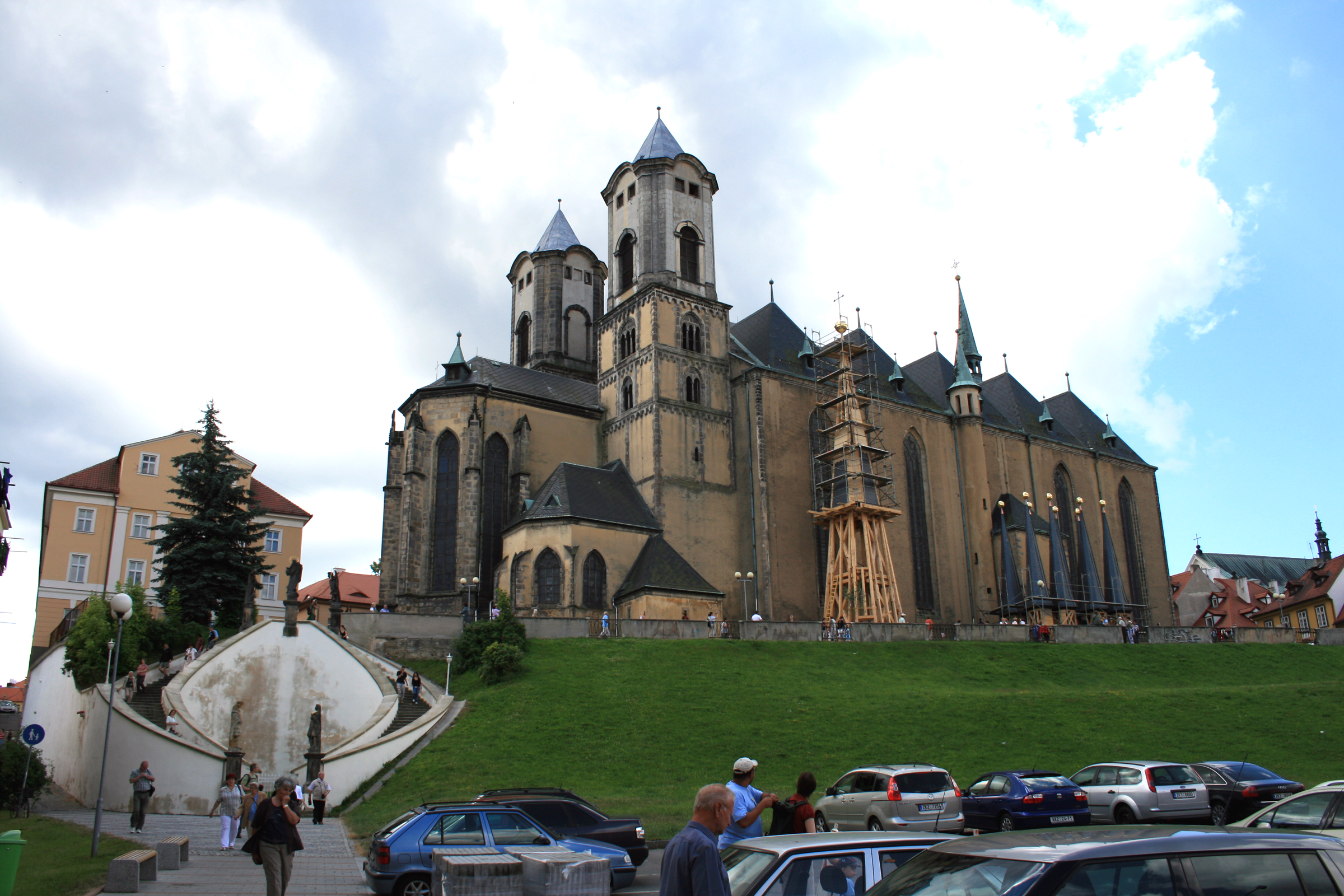 Church of St. Nicolas in Cheb, before change of church towers, Czech Republic